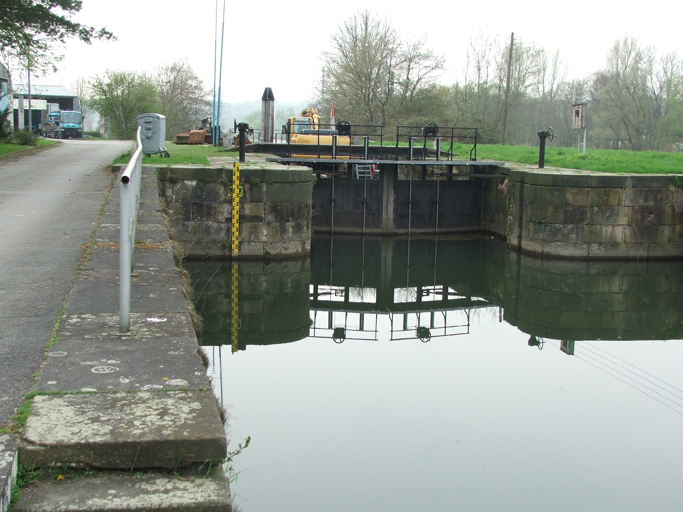 Schleuse in Hattingen-Dumberg, near Bochum-Dahlhausen, Germany, early industry, built 1780